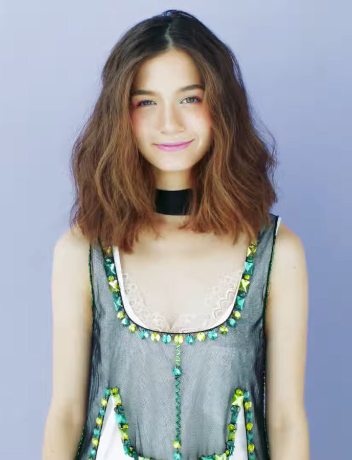 Violette Wautier, Thai singer